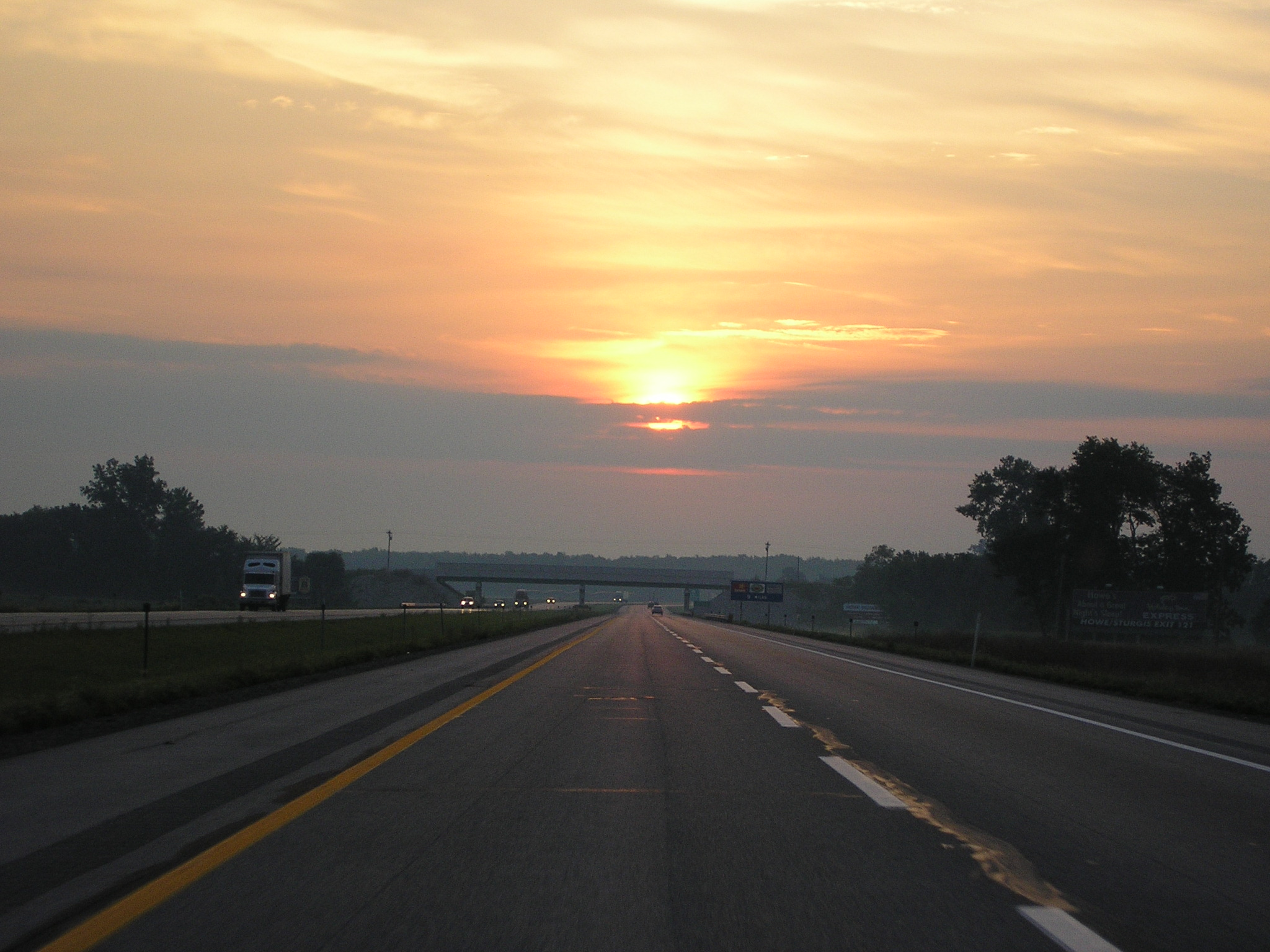 Along the Indiana Toll Road (Interstate 80/90) in northern Indiana. Photo by Georgi Banchev, 2004.